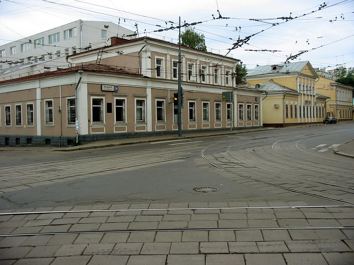 Radio Street in Basmanny District of Moscow